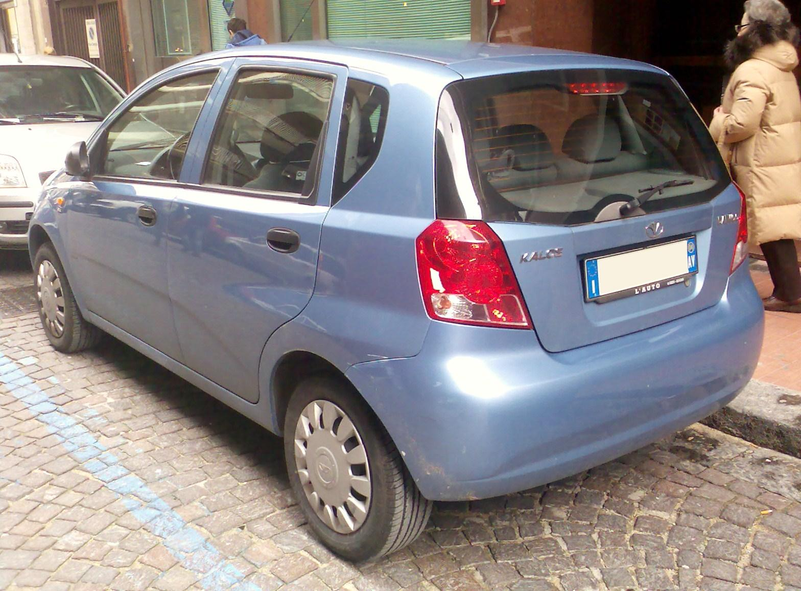 Daewoo Kalos